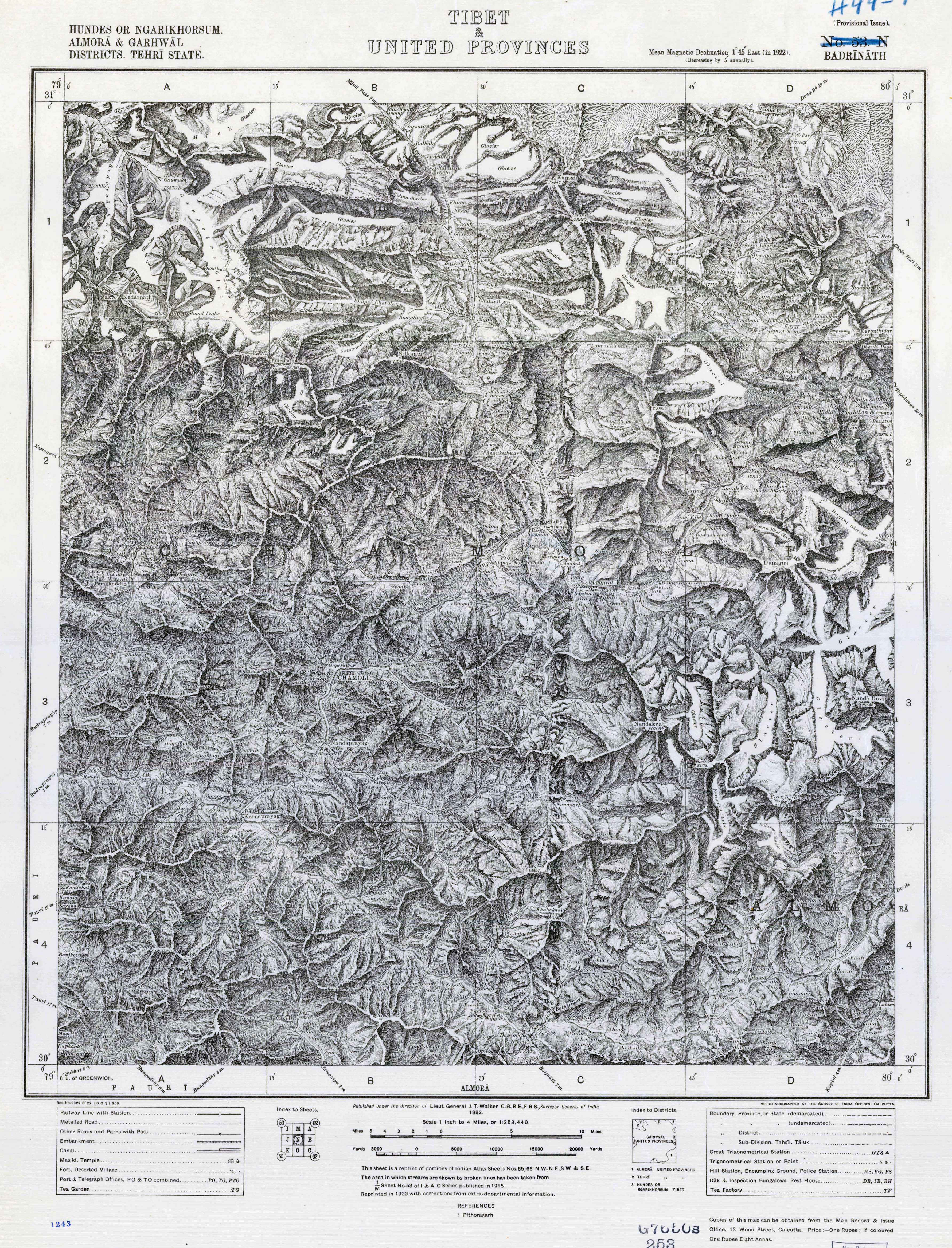 Badrinath Sheet 53 N, 1:253,440 1882. India 1:253,440, Great Britain War Office, Series 3919 & 4218